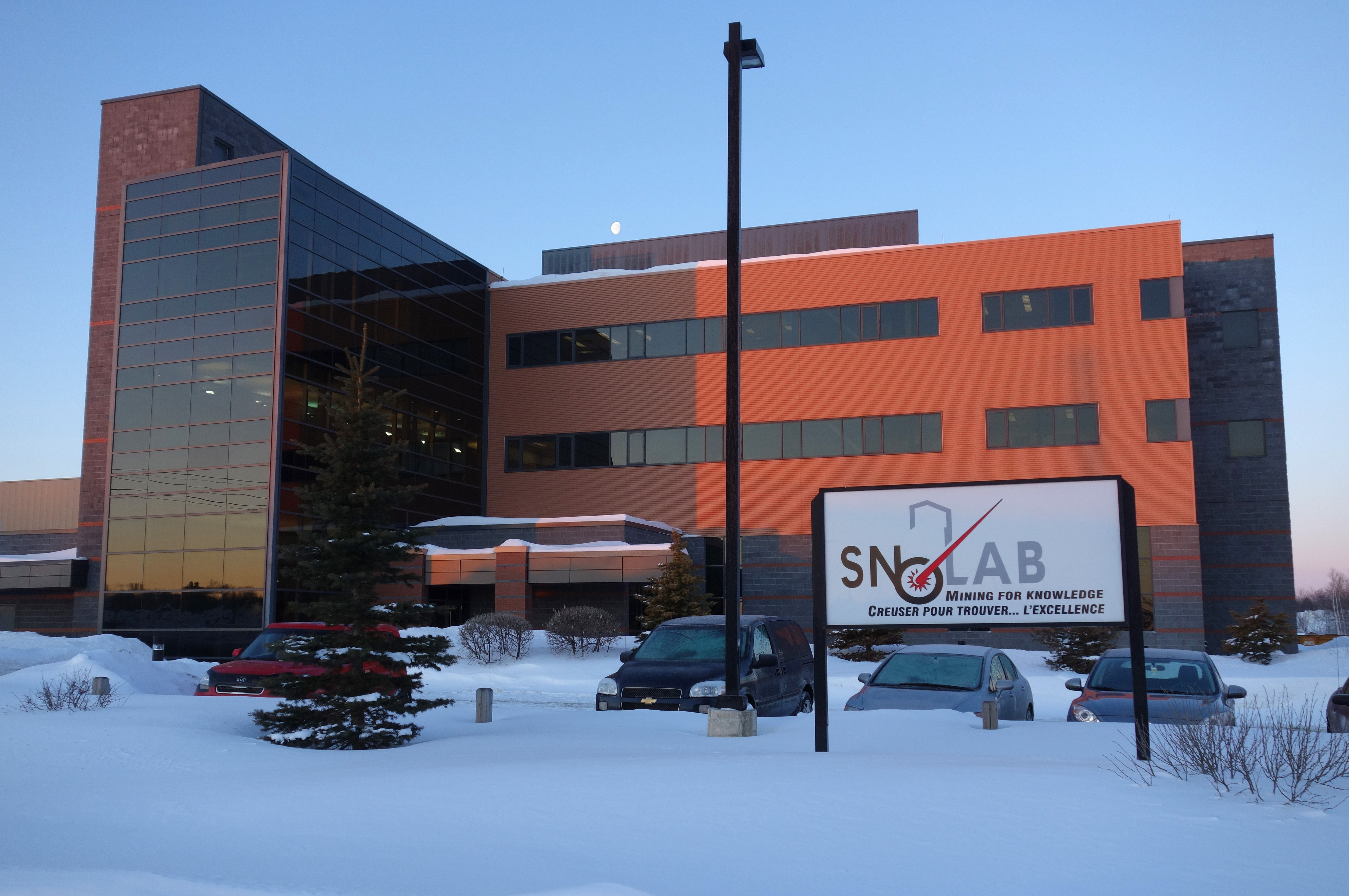 SNOLAB surface building